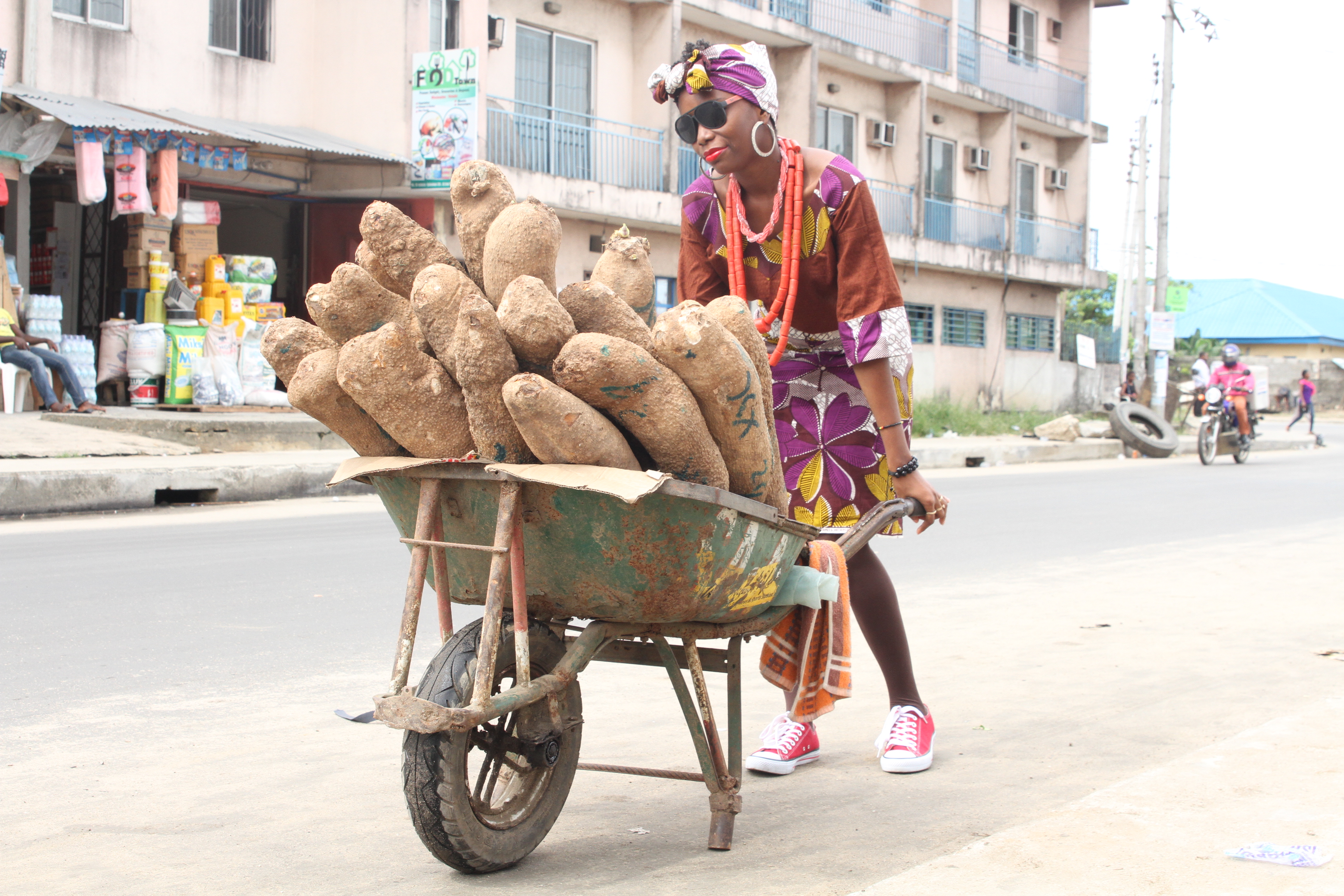 Mobile market- Selling yams on wheelbarrows This is an image of Cultural Fashion or Adornment from Nigeria